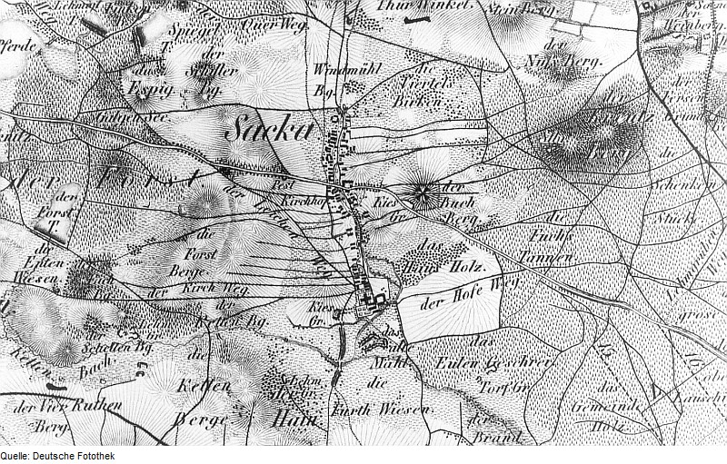 Original image description from the Deutsche Fotothek Thiendorf-Sacka. Oberreit, Sect. Großenhain, 1841/43